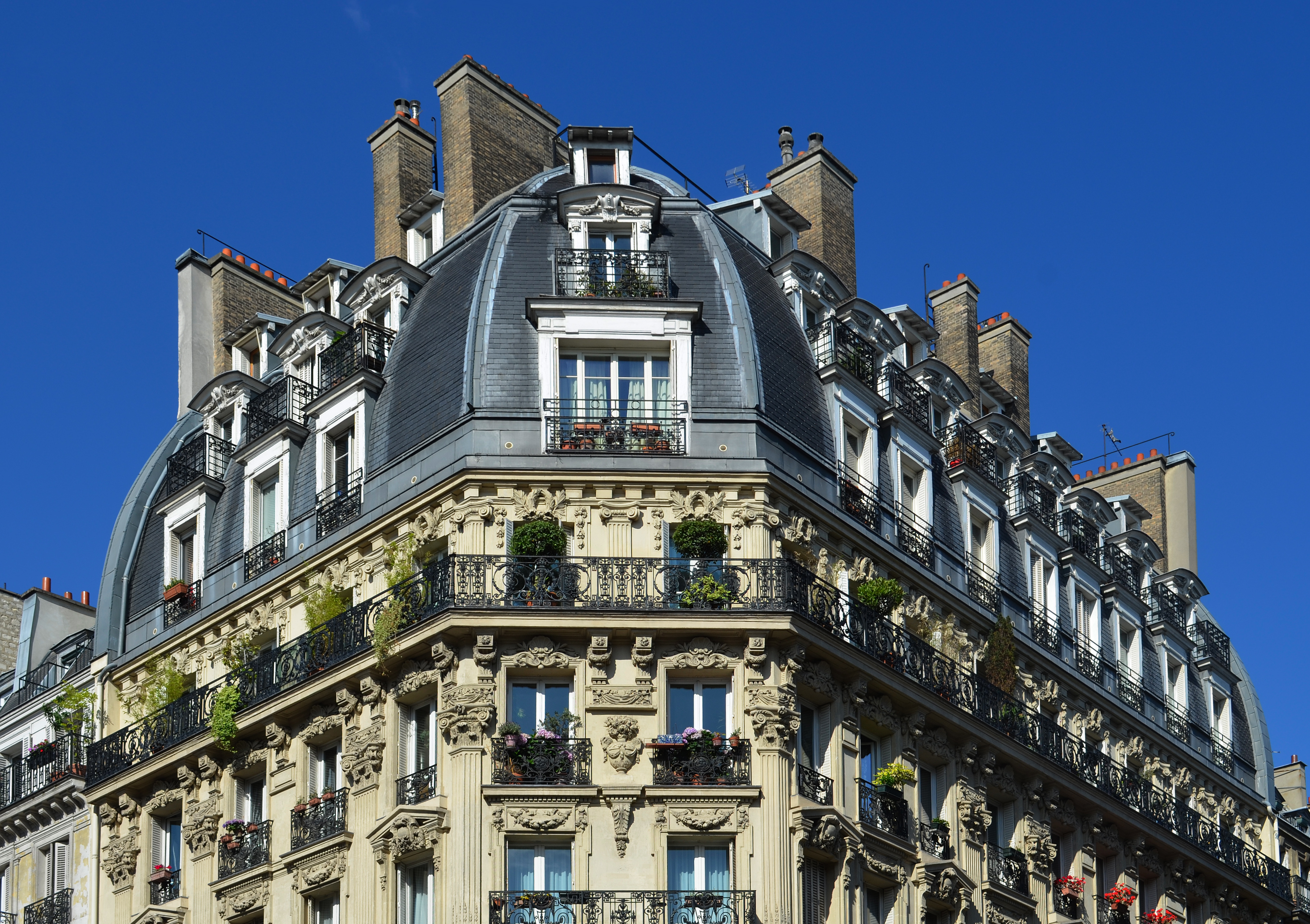 Facade detail and roof of a parisian building - 72 rue de Rennes - Paris 6ème arrondissement